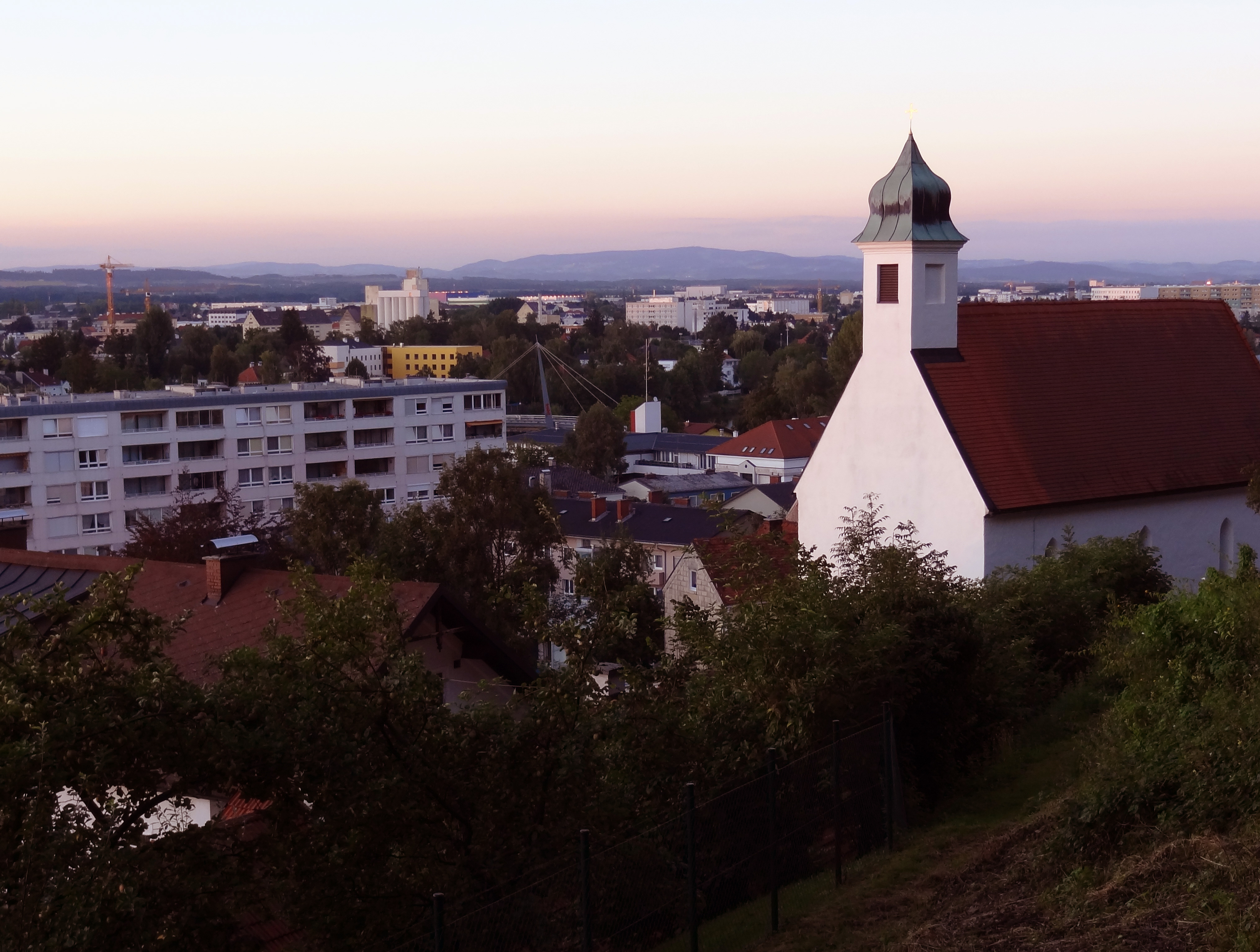 The "Welser Heide", seen from the Reinberg at Thalheim bei Wels